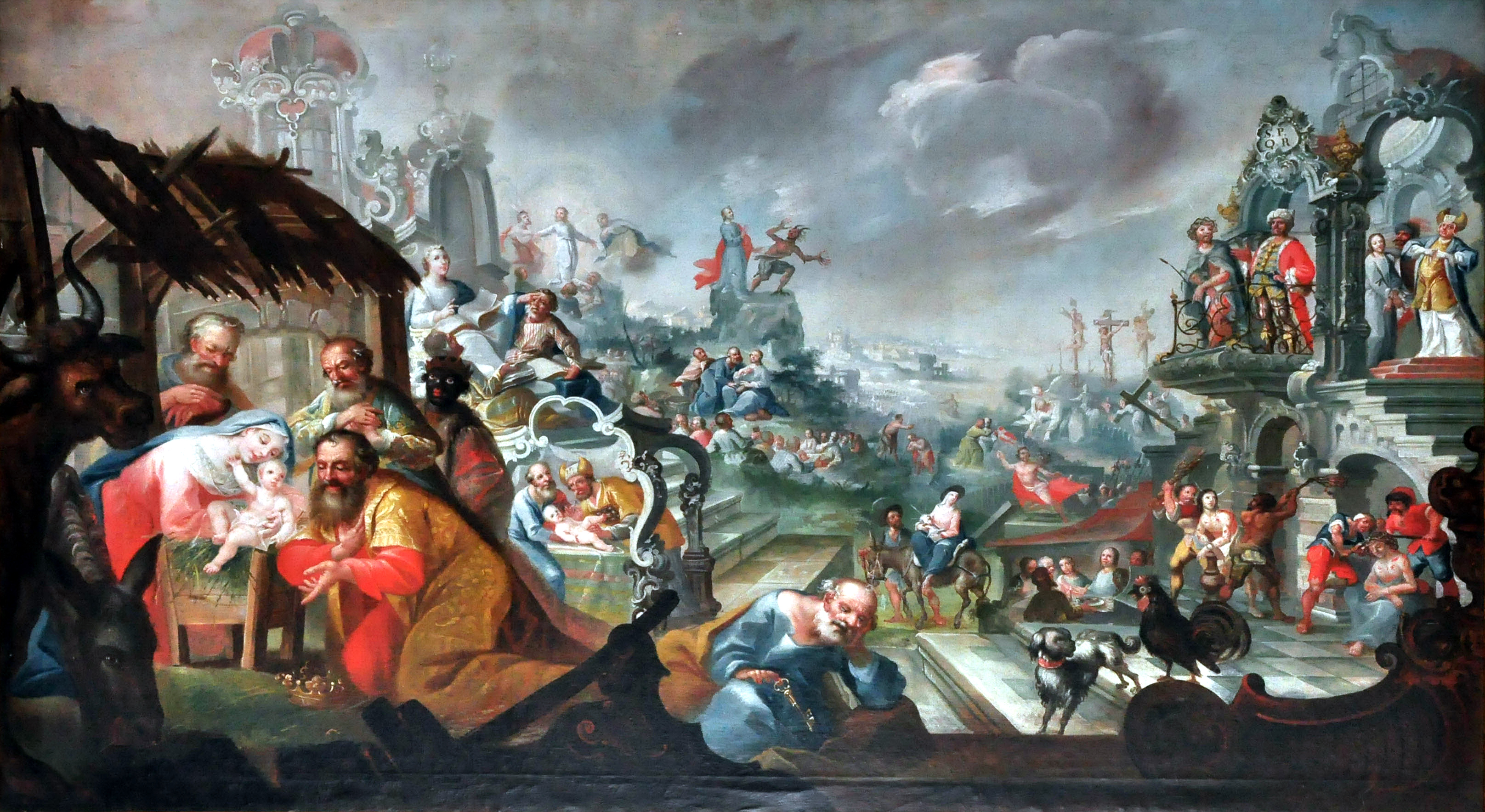 Oil painting "New Testament" in the parish church Saint Nicholas in Preitenegg, municipality Preitenegg, district Wolfsberg, Carinthia, Austria, EU